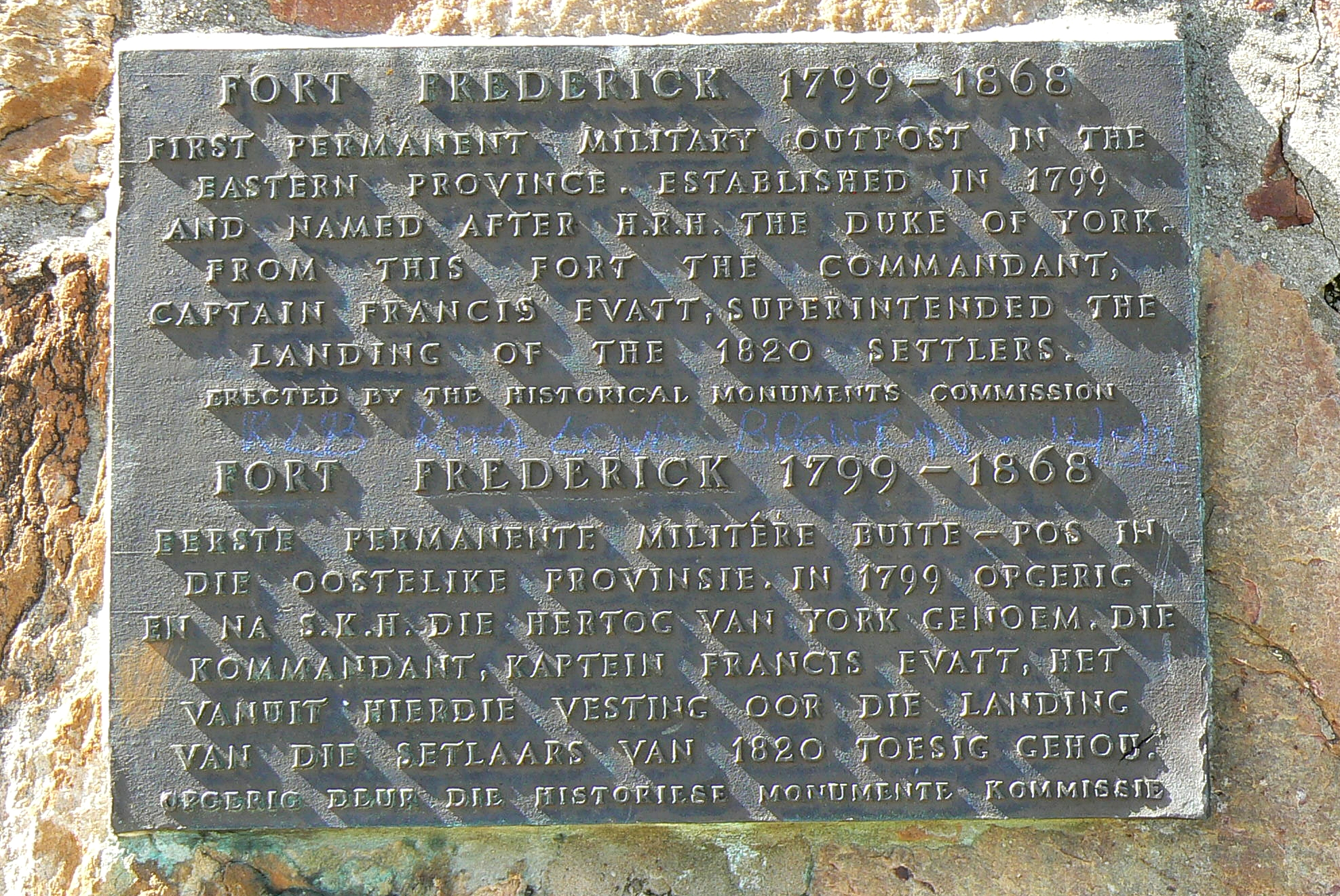 The plaque at the entrance to Fort Frederick in Central, Port Elizabeth, South Africa. This media shows a South African Protected Site with SAHRA file reference 9/2/073/0006.